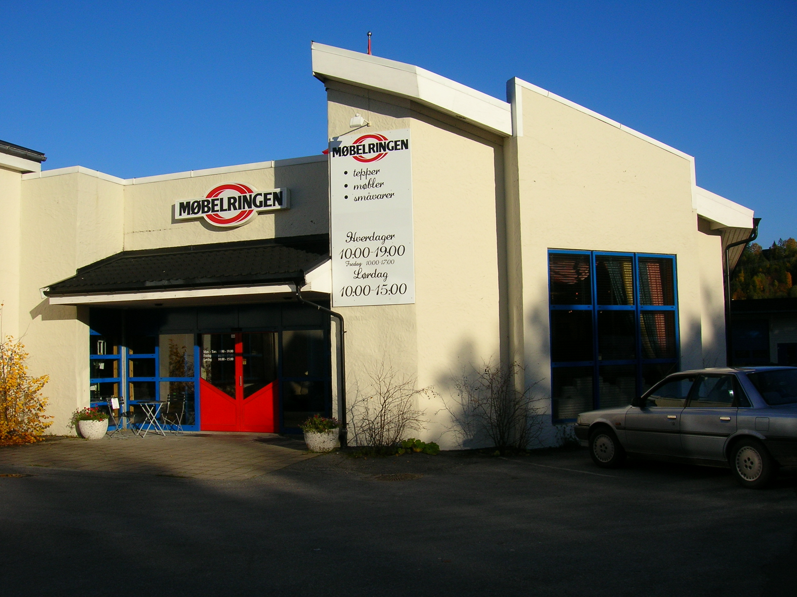 The store «Møbelringen Bomøbler» on Tverrånes, selling furnitures, carpets and more. Tverrånes, Rana municipality, Nordland. Photo 28 September, 2007 with a Nikon Coolpix 5600 5,1 Megapixel camera.